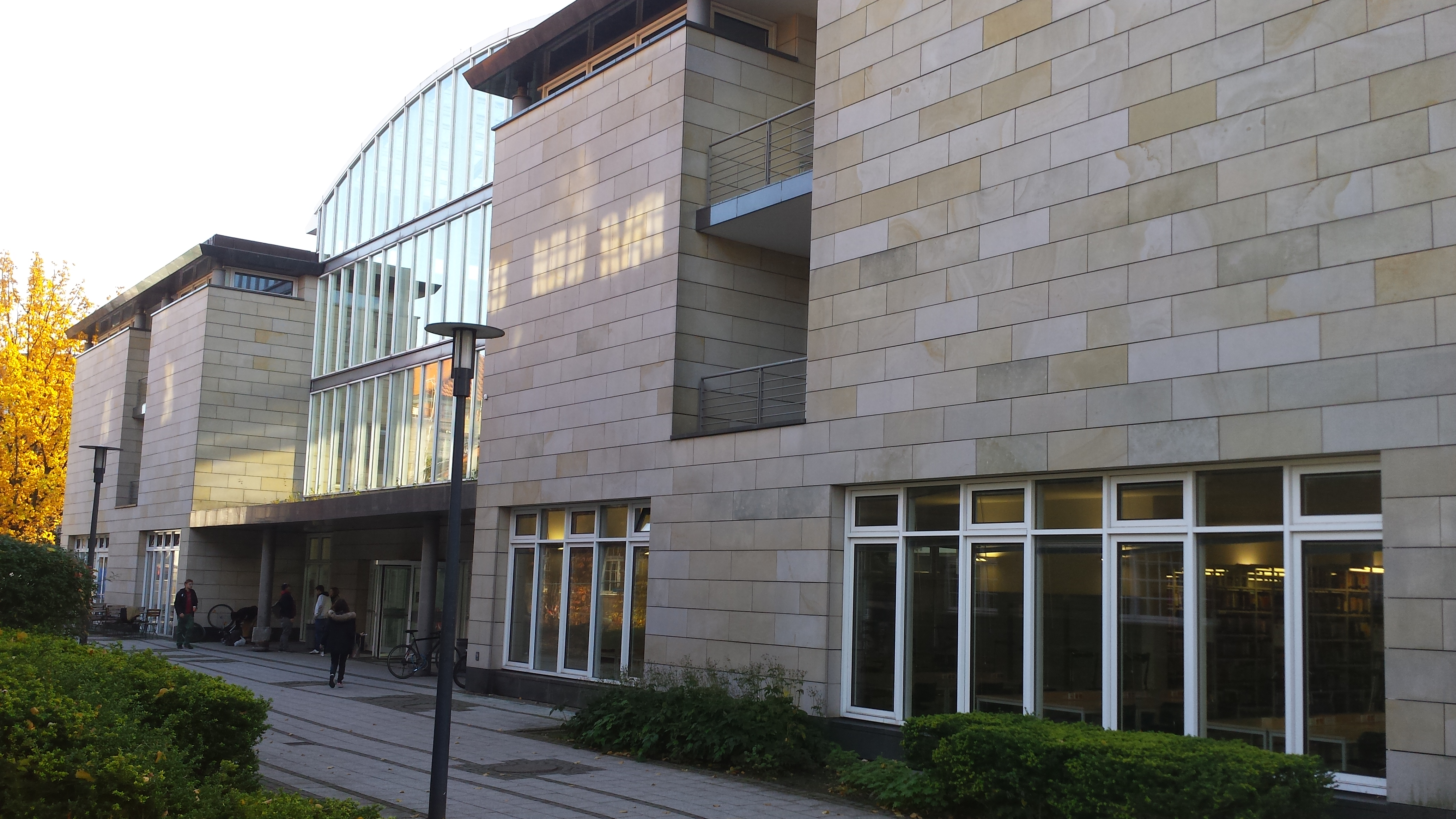 Entrance of the Asia-Africa-Institute of the University Hamburg